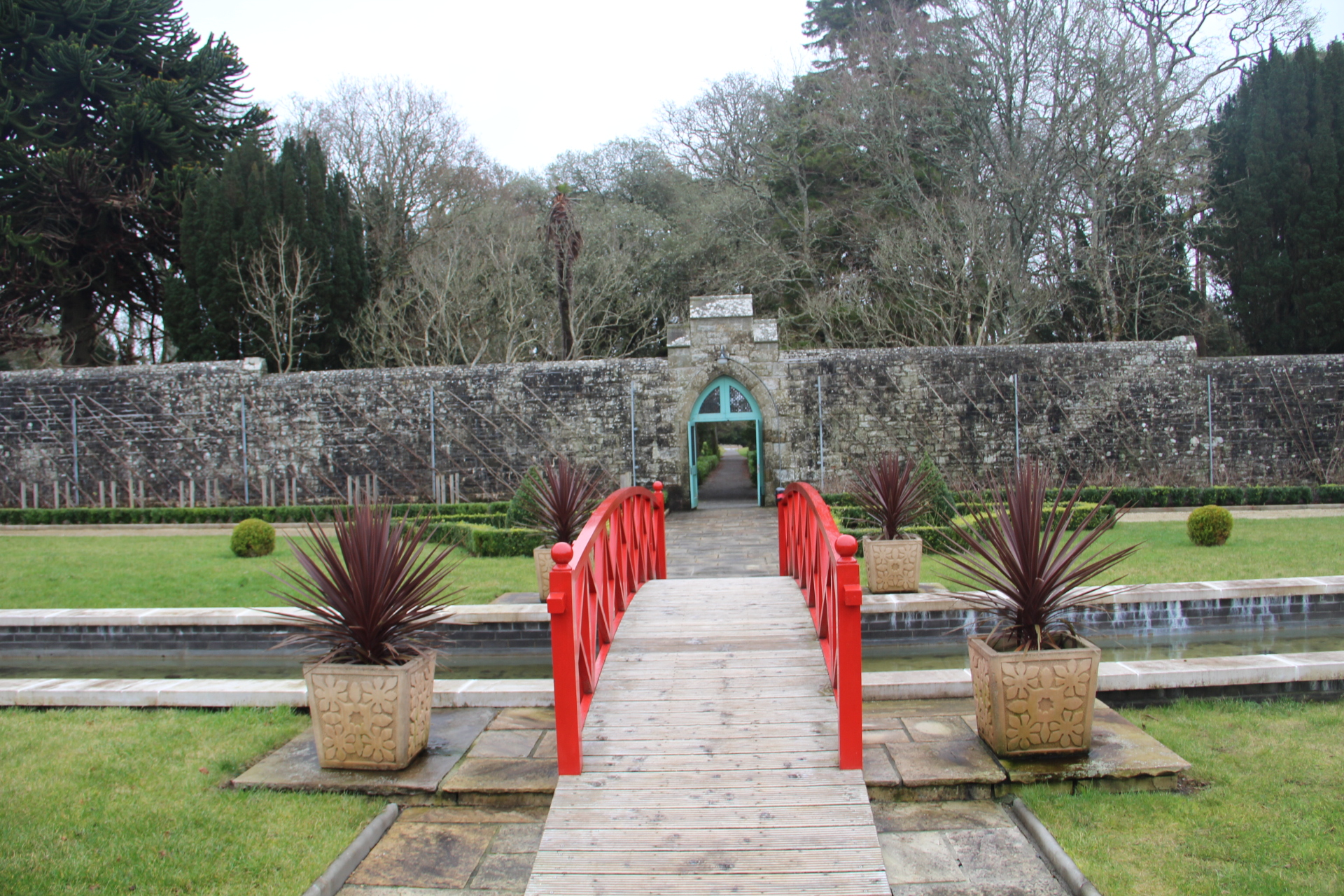 Bridge in walled garden